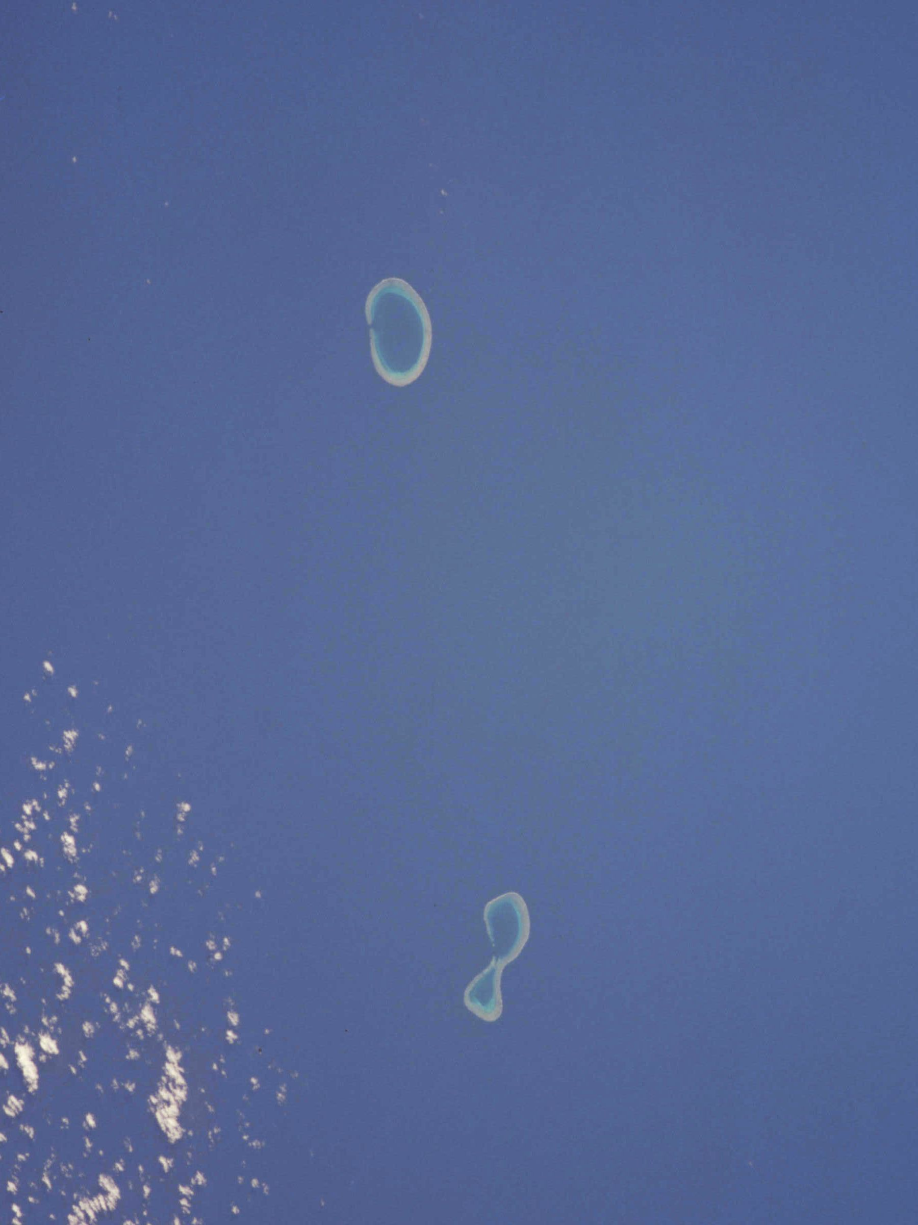 NASA astronaut image of Minerva Reefs (Tonga) in the Pacific Ocean